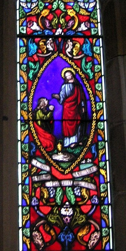 English stained glass, Darlinghurst, Sydney